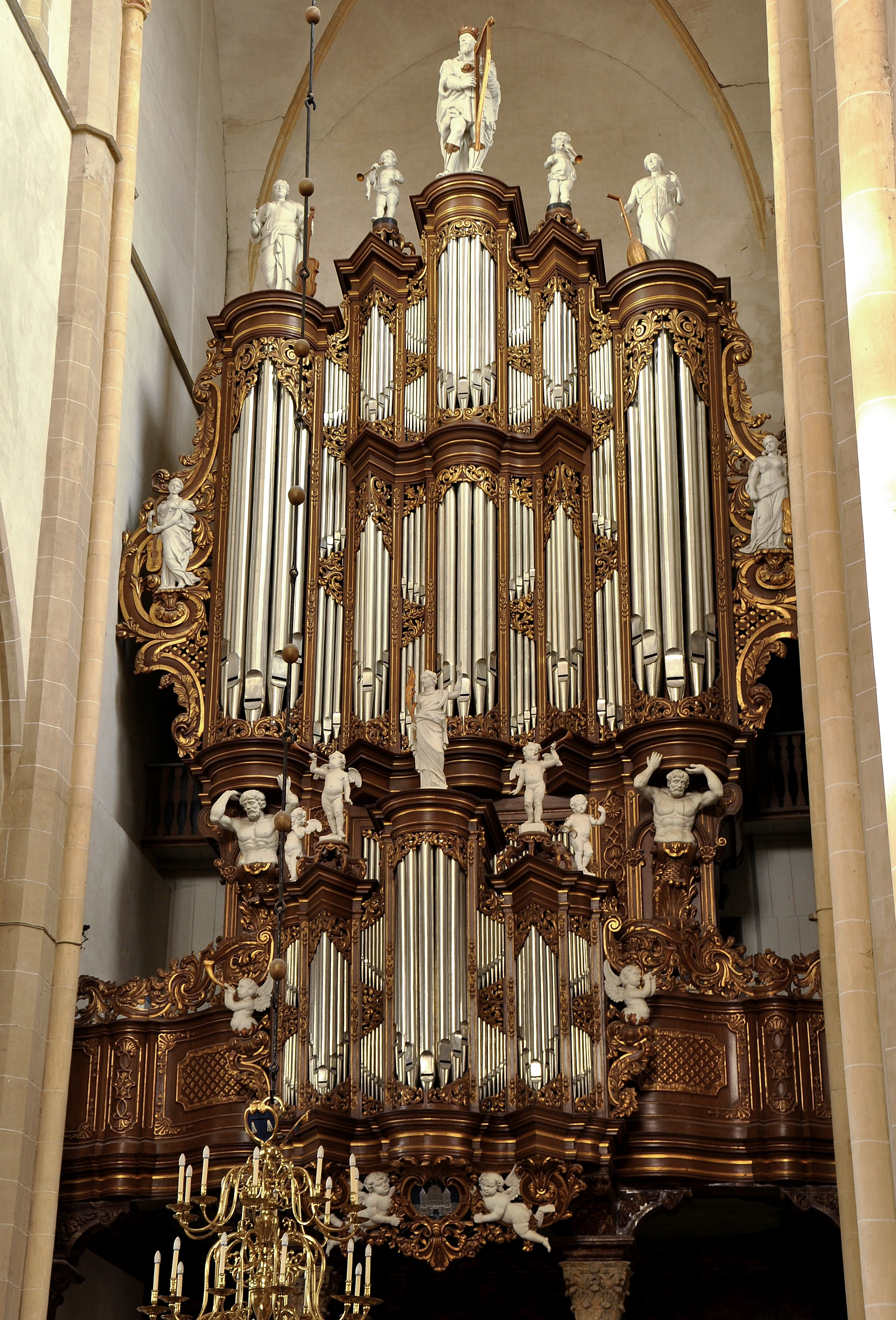 Organ at the Bovenkerk at Kampen (the Netherlands)